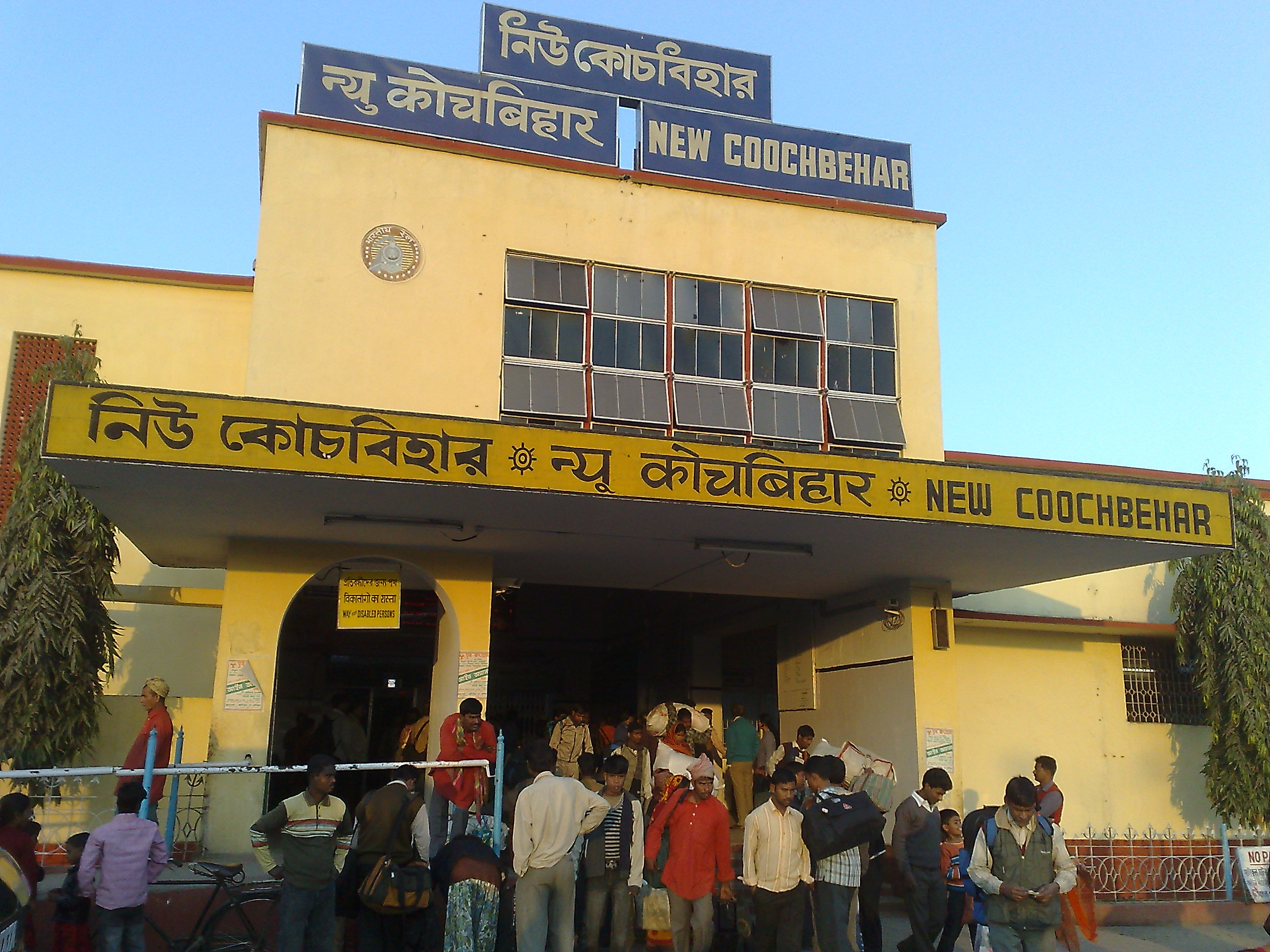 Photo of New Cooch Behar railway station. This image is for use in